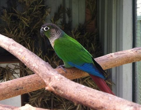 Green Cheeked Conure (Pyrrhura molinae)